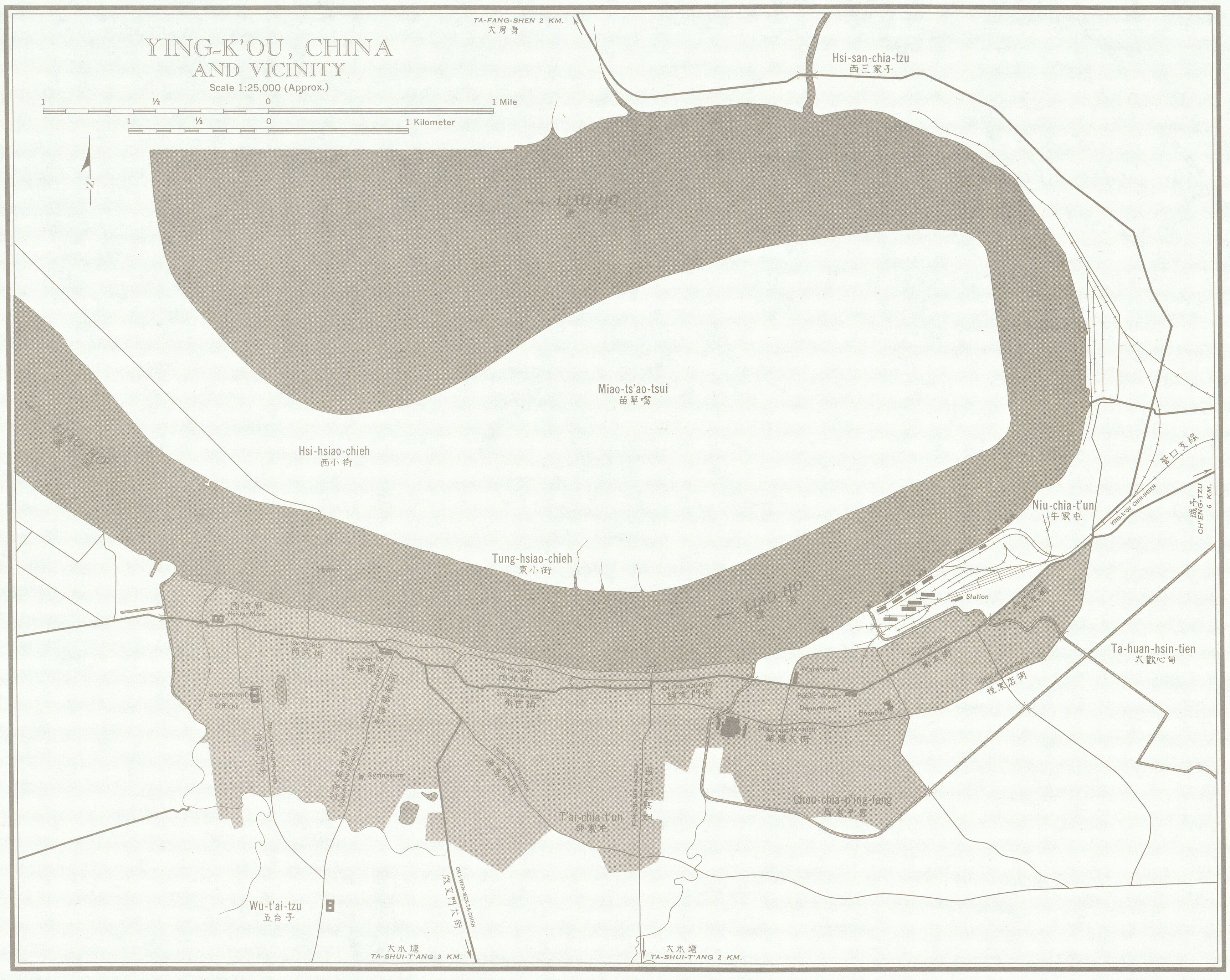 Manchuria AMS Topographic Maps